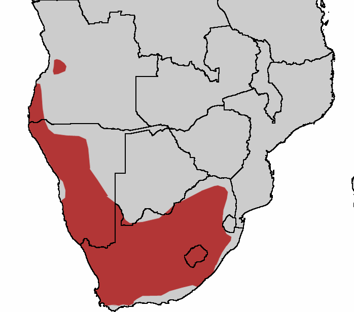 The Mountain Wheatear's Distribution.